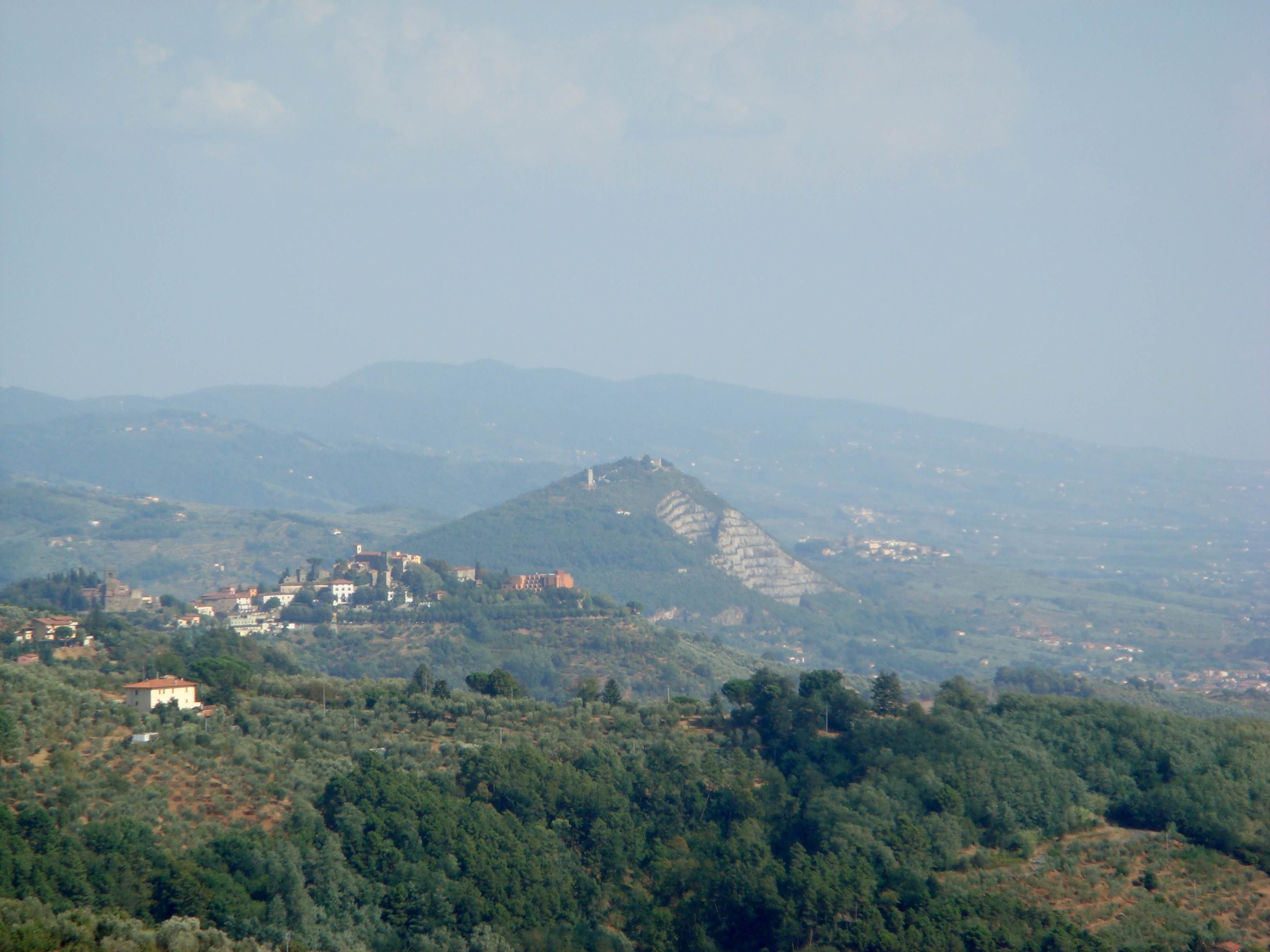 View over the hill towns of eastern Valdinievole (Montecatini Alto, Monsummano Alto, Montevettolini, Larciano) from Cozzile